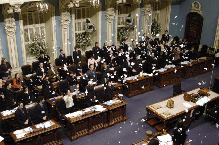 A simulation by a "youth parliament" of the dissolution of a legislature of the National assembly of Quebec.